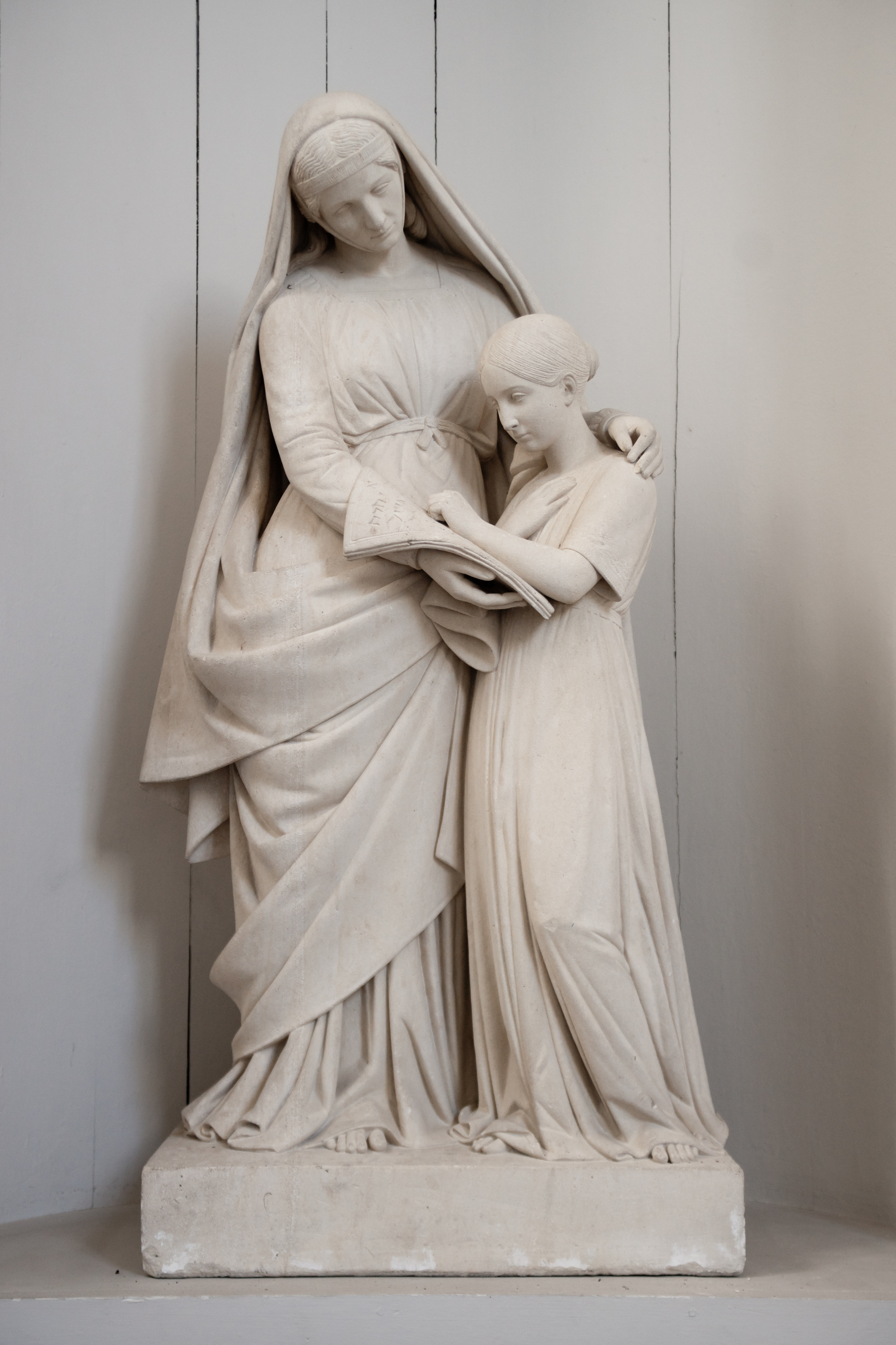 Education of Virgin Mary by Saint Ann. Julien-Jean Gourdel, 1844. Ordered by Louis-Philippe in 1841, placed in the palace of Saint-Cloud in 1844 and in the Petit Trianon in 1847.